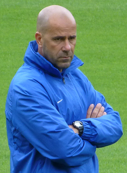 Peter Bosz